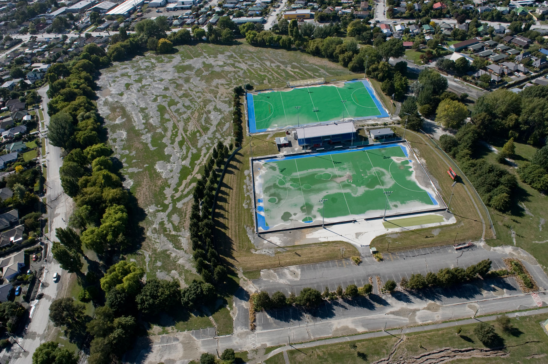 Aerial view of Porritt Park, Christchurch, 5 days after the February 2011 earthquake. Much of the park is covered in mud produced by liquefaction. Flickr caption: "Aerial image of Christchurch suburbs for the Earthquake Commission 20110227_WN_S1015650_0012."